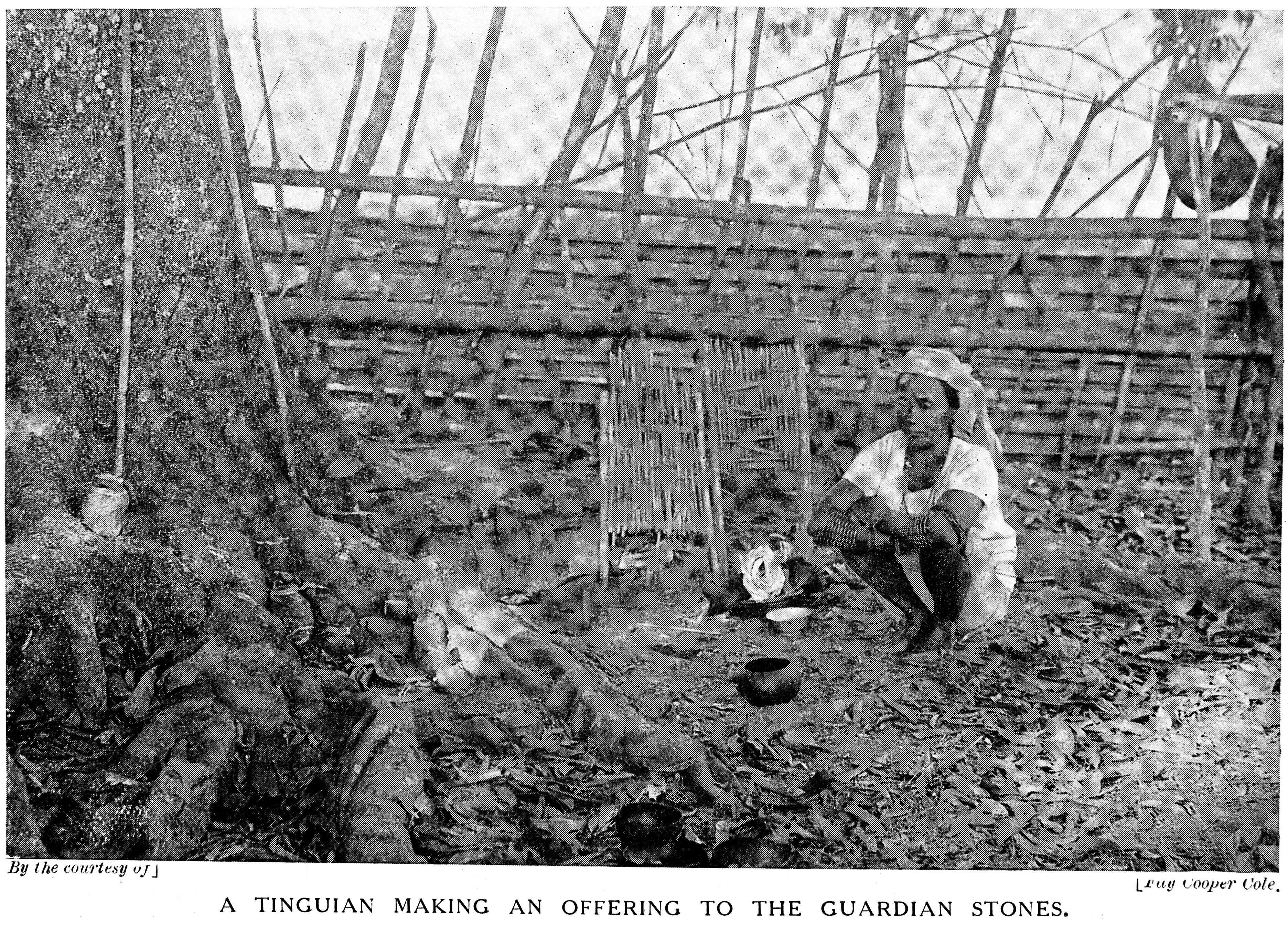 A Tinguian making an offering to the guardian stones. The stones, in which the guardian spirits are supposed to live, are, before certain ceremonies, tied up with bark-like bands and rubbed with oil. Then the blood for a pig is mixed with rice which is scattered before them. Wellcome Images Keywords: Magic; agricultural, hunting; indigenous medicine; non-european medicine